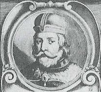 Boleslaus III The Wry-Mouthed